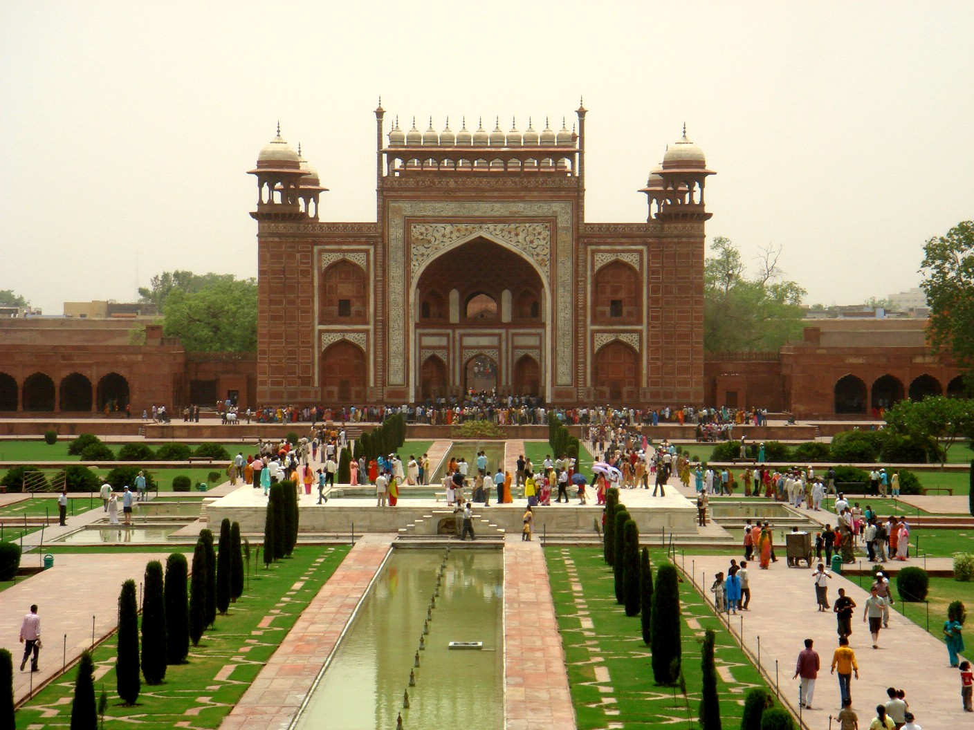 Picture taken by Kaiser Tufail during visit to Agra, 3-5-08